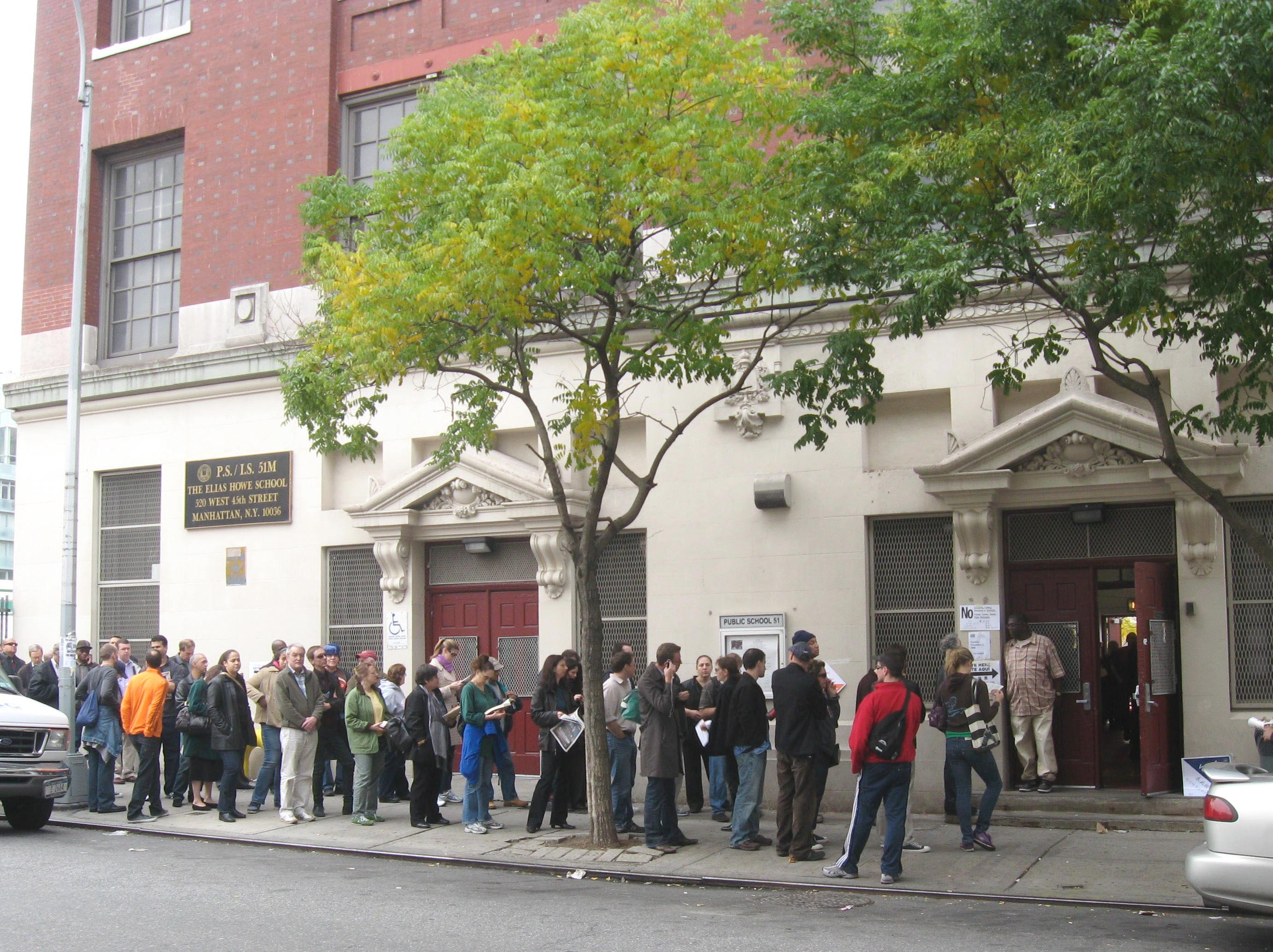 Looking southeast at voters lining up at PS 51, Elias Howe Elementary School in Hell's Kitchen, Manhattan on a cloudy Election Day.